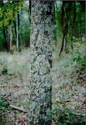 Tree with lichens: Flavoparmelia caperata and Punctelia rudecta. Photographed at Soldiers Delight Natural Environment Area, Baltimore County, Maryland.